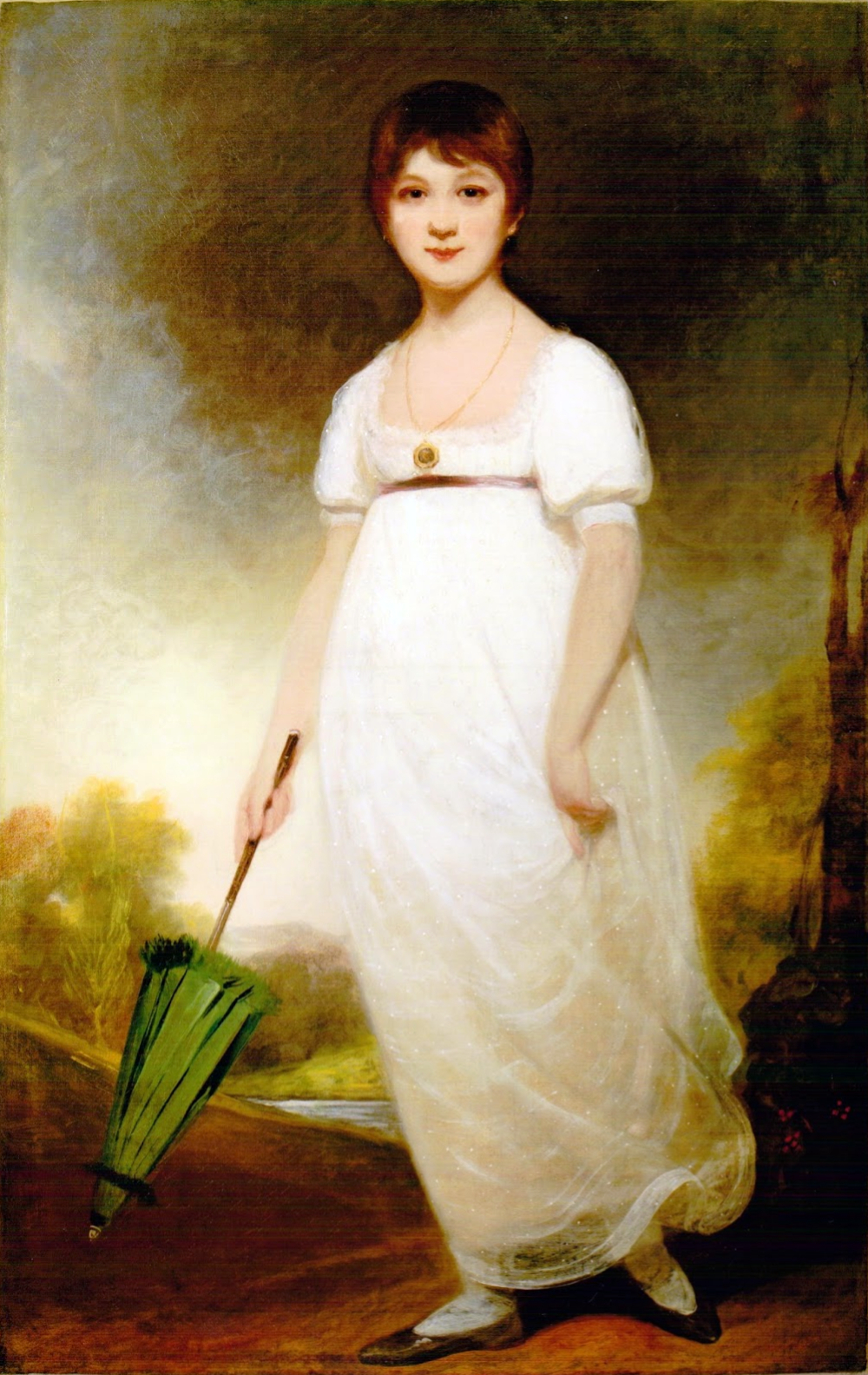 The "Rice Portrait". Perhaps of the young Jane Austen (though this has been highly disputed, with some experts saying that the clothing styles belong to a period ten years later, when Austen would have been in her mid-20s -- not a young teenager).